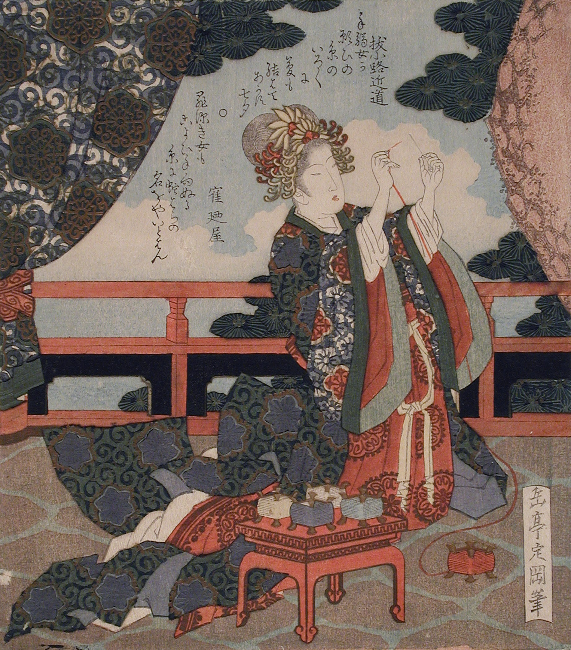 Japan, 19th century Prints; woodcuts Color woodblock print; surimono Image: 8 1/2 x 7 1/2 in. (21.5 x 19.0 cm) Paper: 8 1/2 x 7 1/2 in. (21.5 x 19.0 cm) Gift of Caroline and Jarred Morse (M.80.219.59) Japanese Art